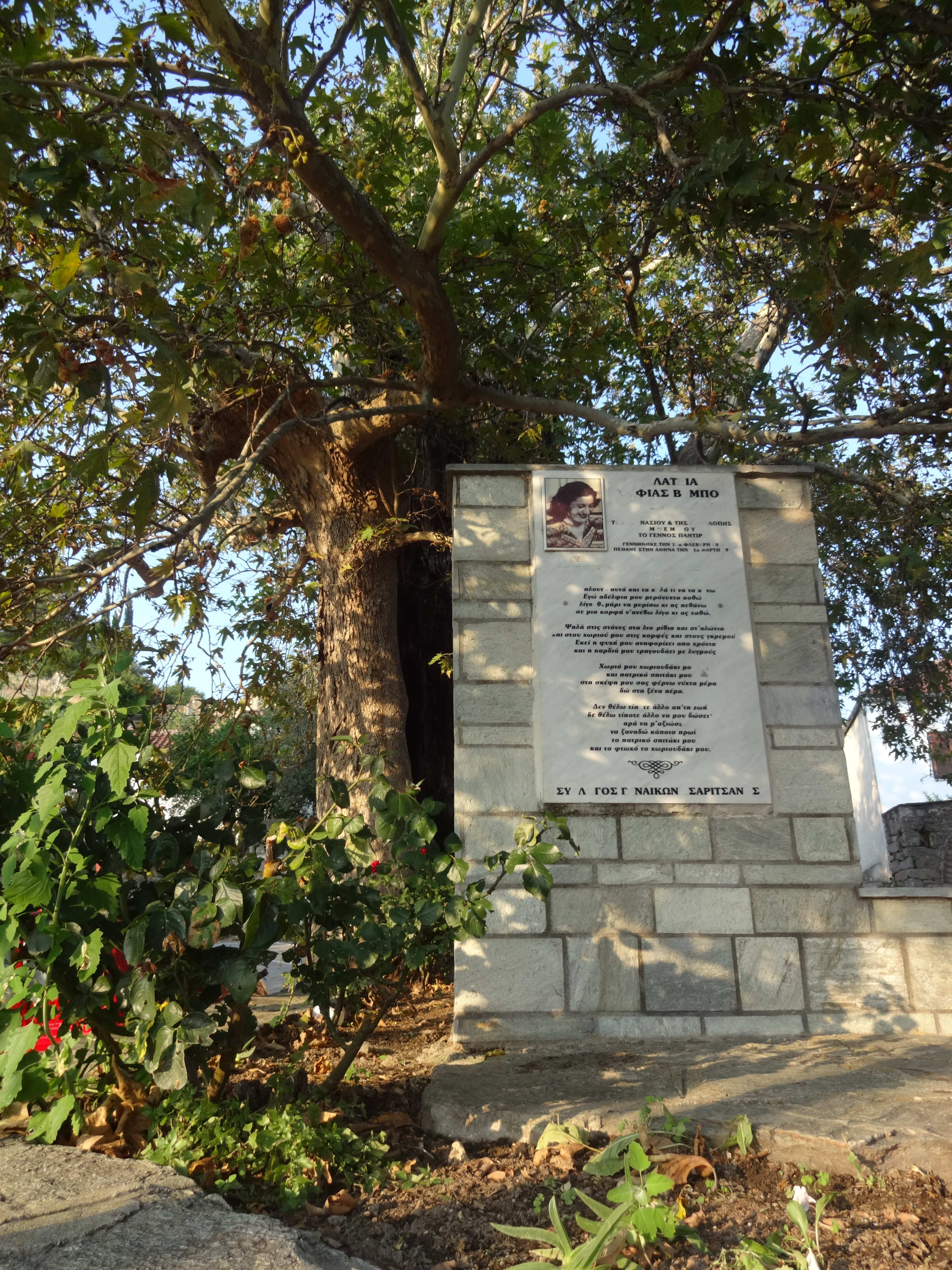 Tsaritsani, Greece. Memorial plate on square named after Sophia Vembo.